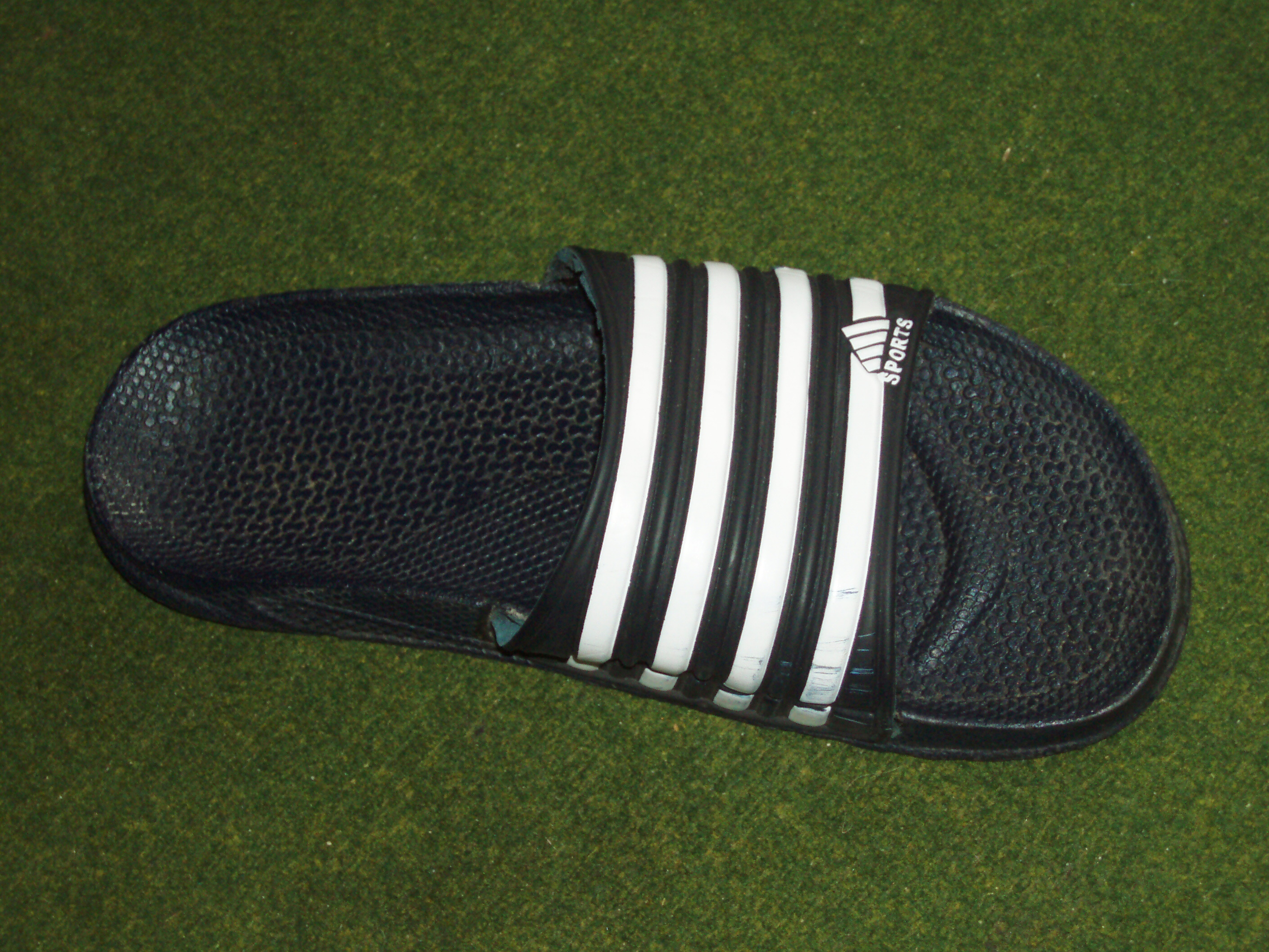 slipper